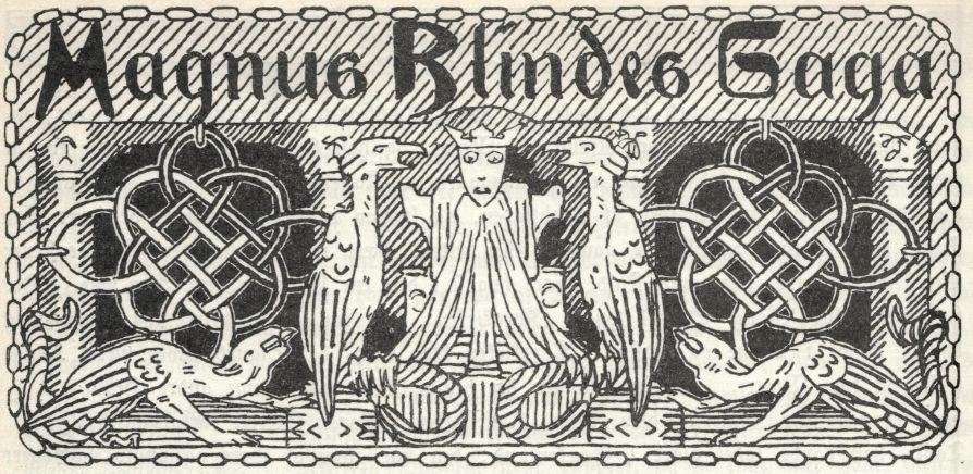 Gerhard Munthe: Illustration for Magnus Blindes og Harald Gilles saga, Heimskringla 1899-edition. Tittelfrise.